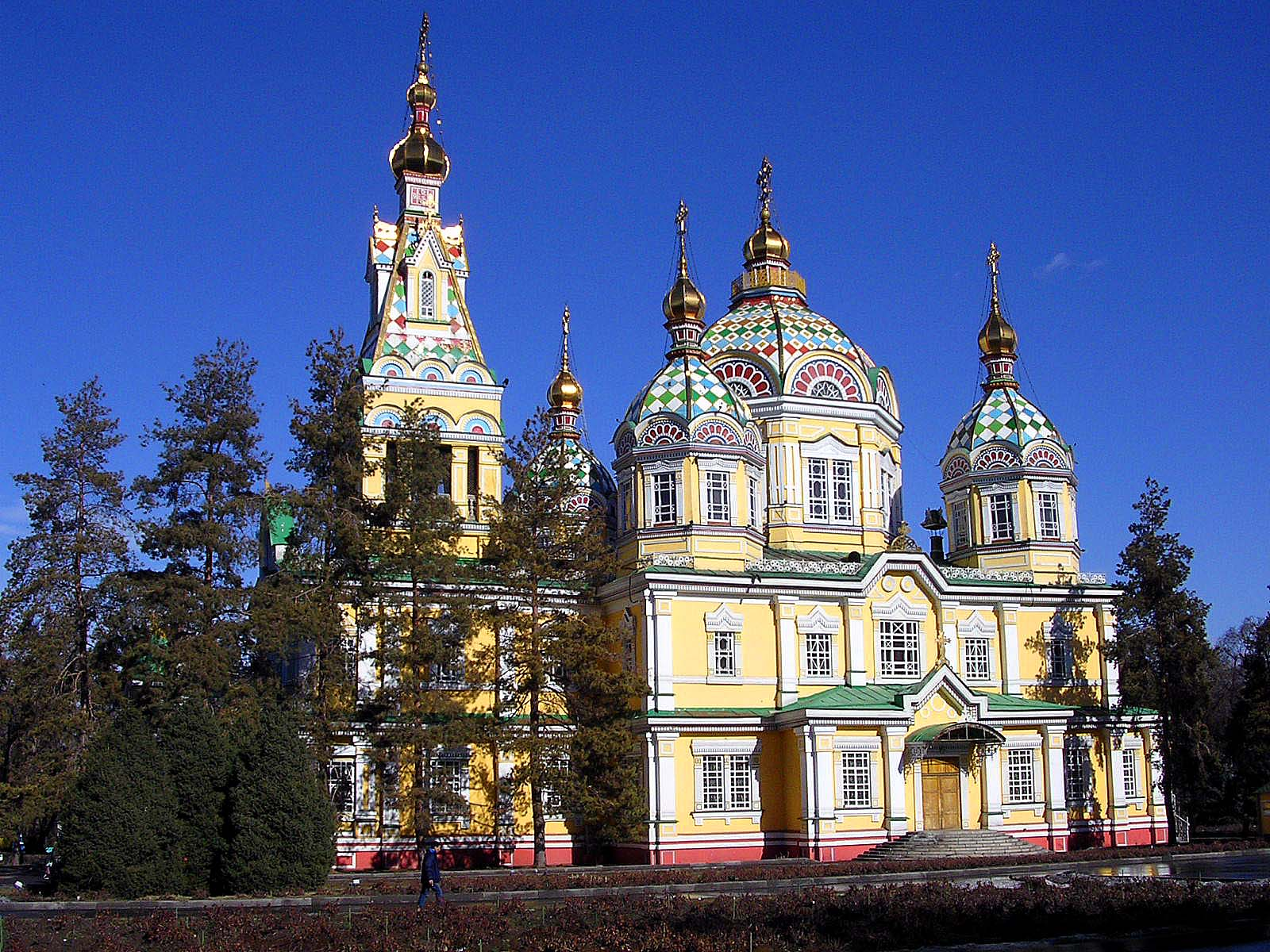 Ascension Cathedral in Almaty This image is related to the cultural heritage of Kazakhstan number 011010800